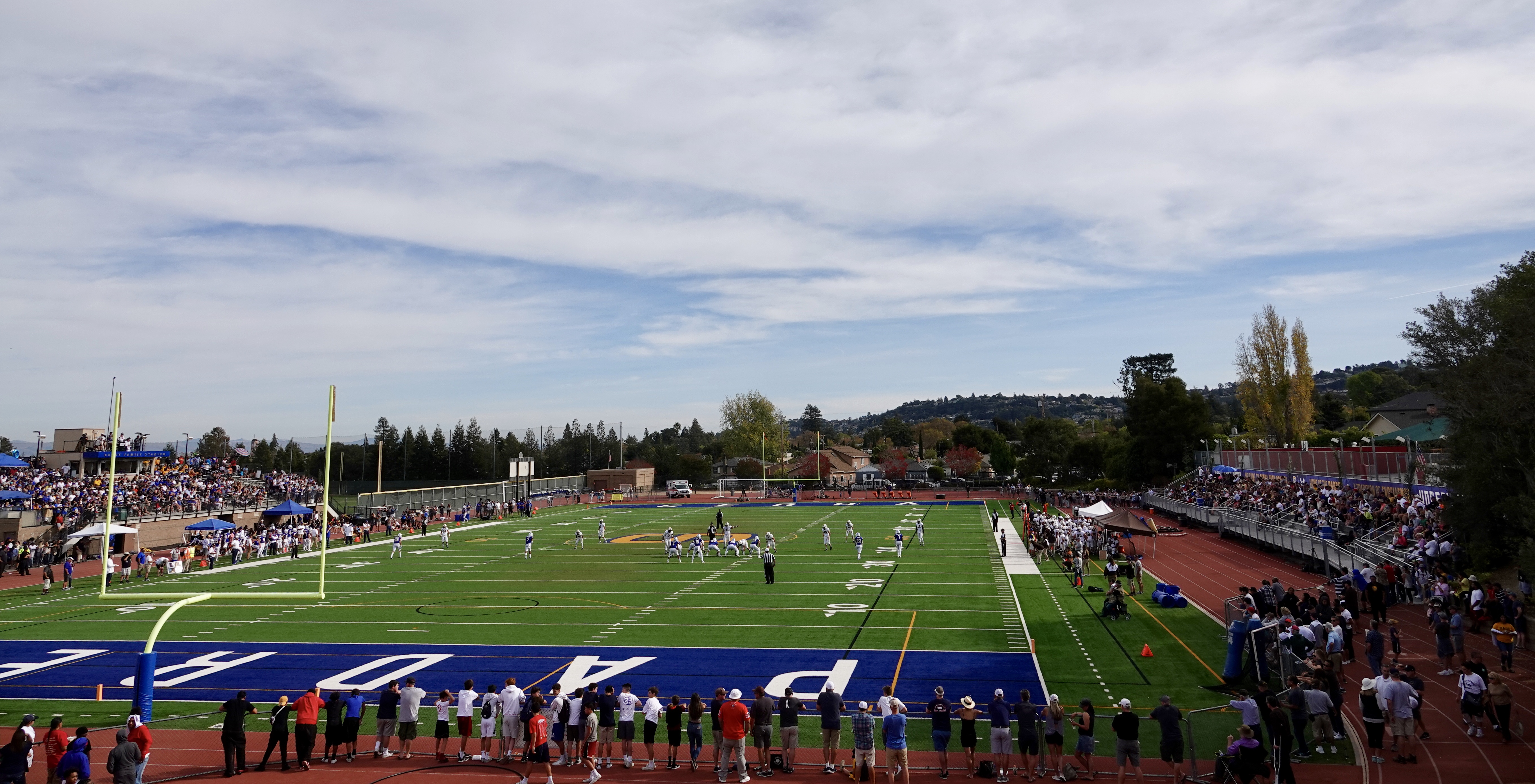 Brady Family Stadium at Serra High School